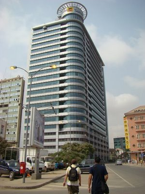 Head office of Sonangol in Luanda. The building's head architect was Sung-Ho Hang.[1]